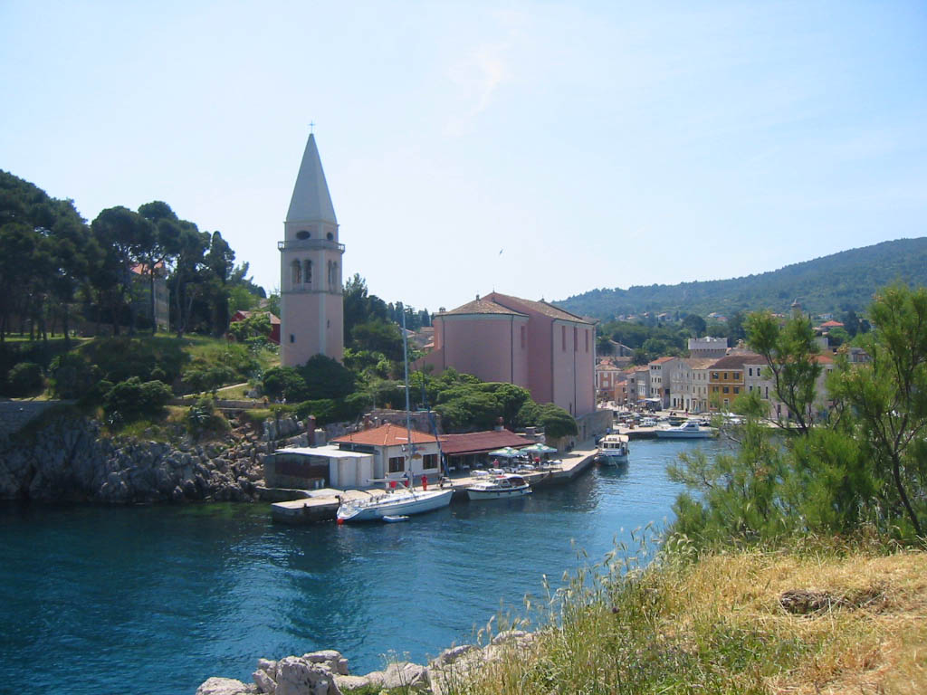 Veli Lošinj, town at island Lošinj, Croatia photo:Ziga 12:13, 16 April 2007 (UTC)